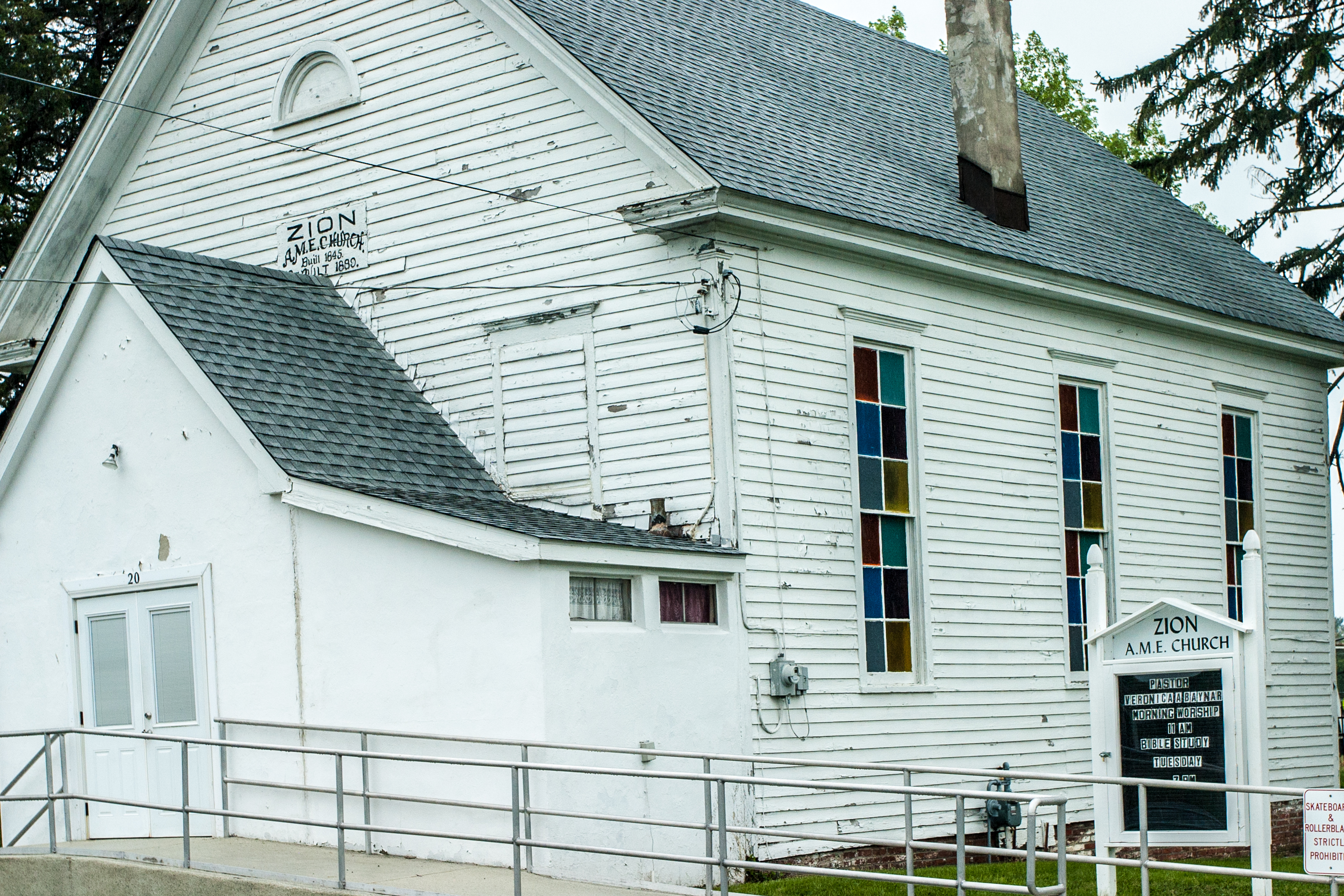 Zion AME Church, Camdem, Delaware